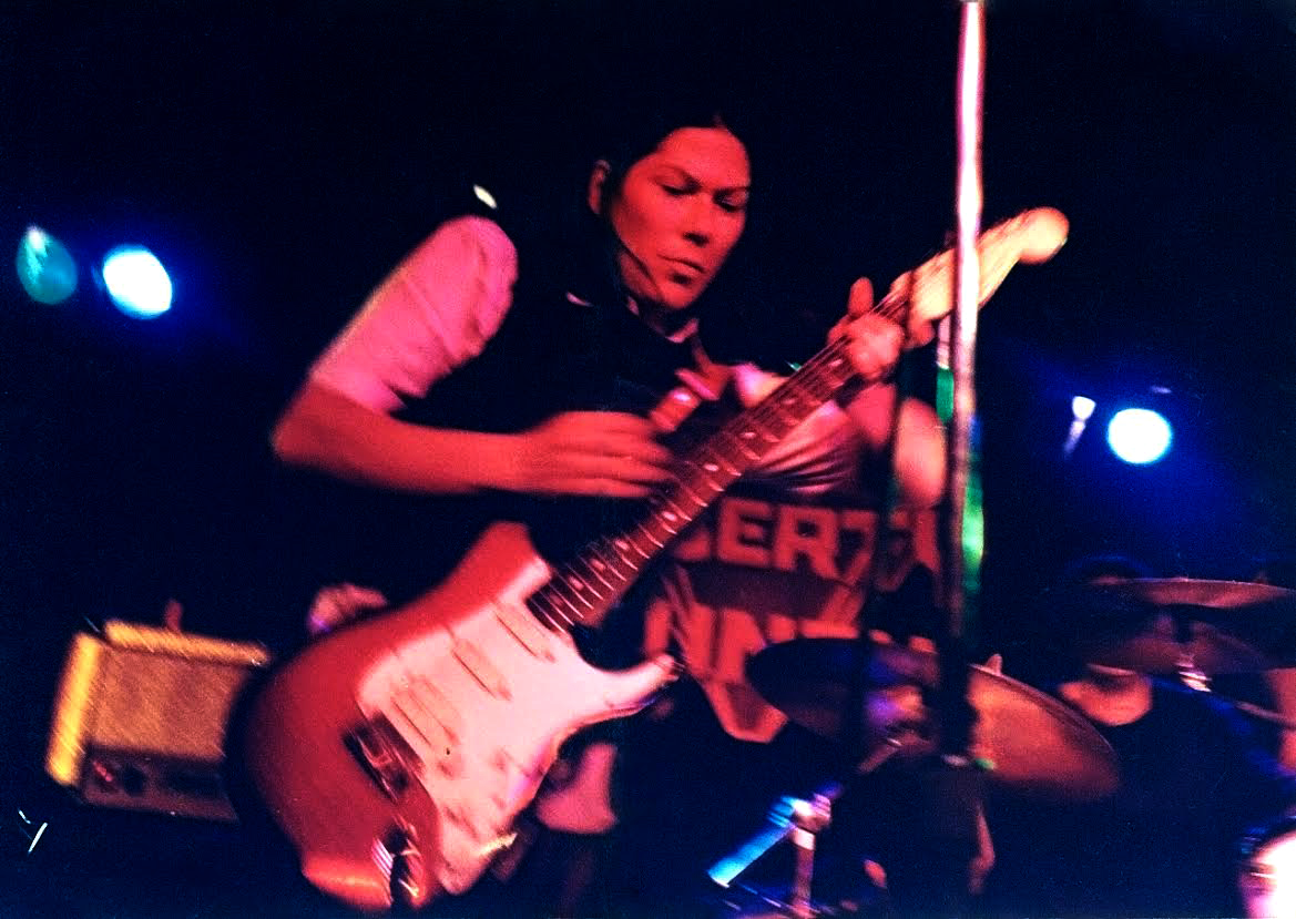 Kim Deal playing guitar with The Amps in Dayton Ohio, 1995.